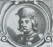 Henry Probus